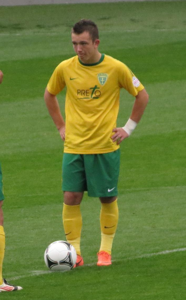 This is a photo of MŠK Žilina player Miroslav Káčer